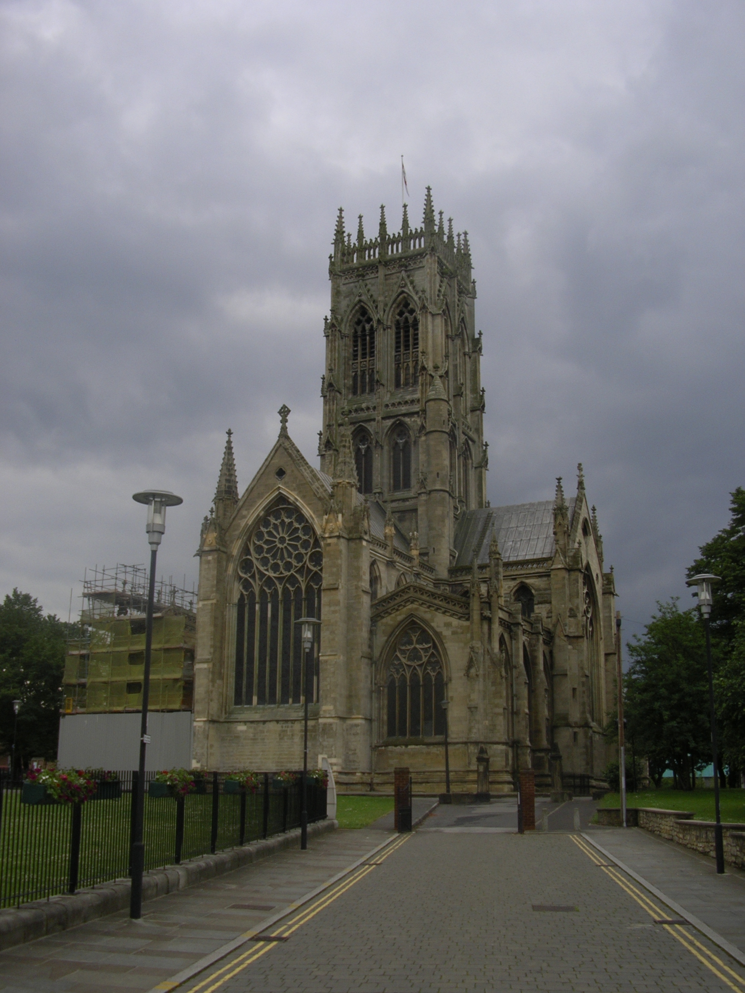 St George's Church, Doncaster, from the north east.